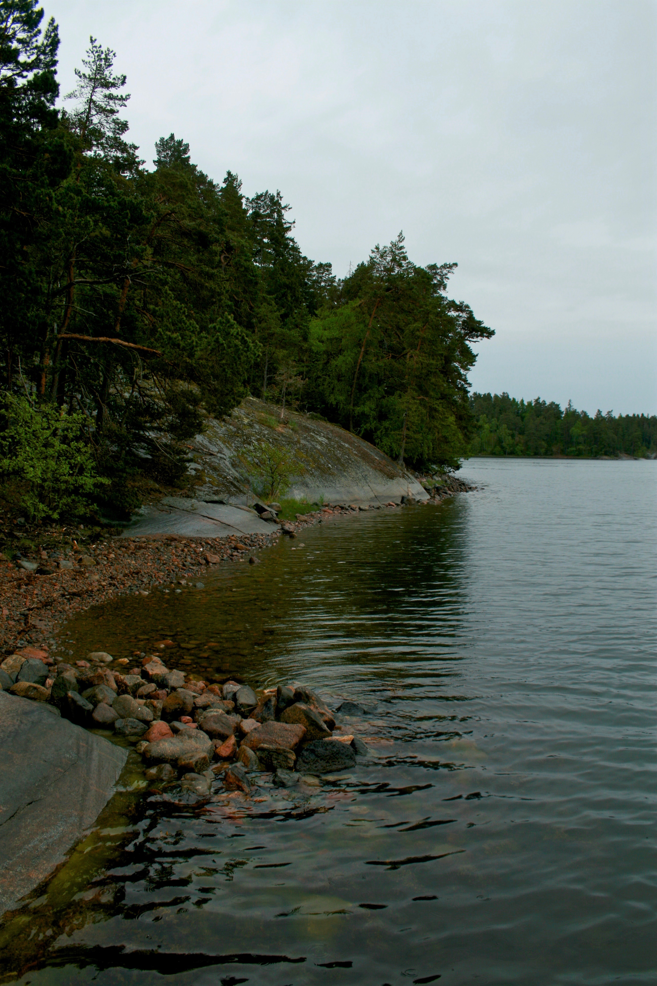 West coast of Ängsö national park.